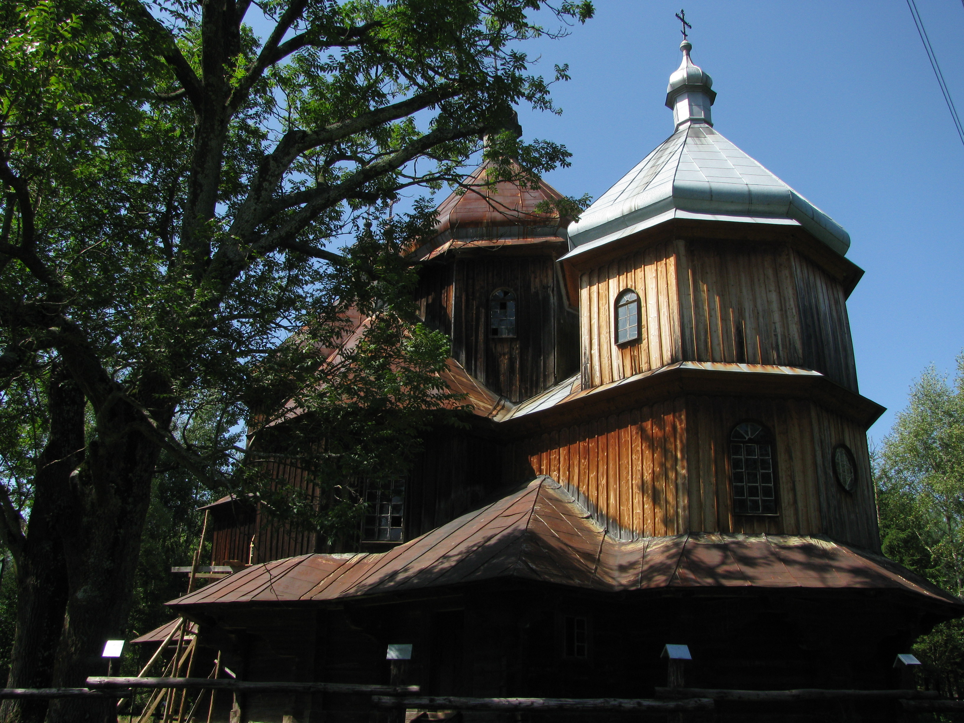 Orthodox church in Bystre (Bieszczady county), built in 1902.